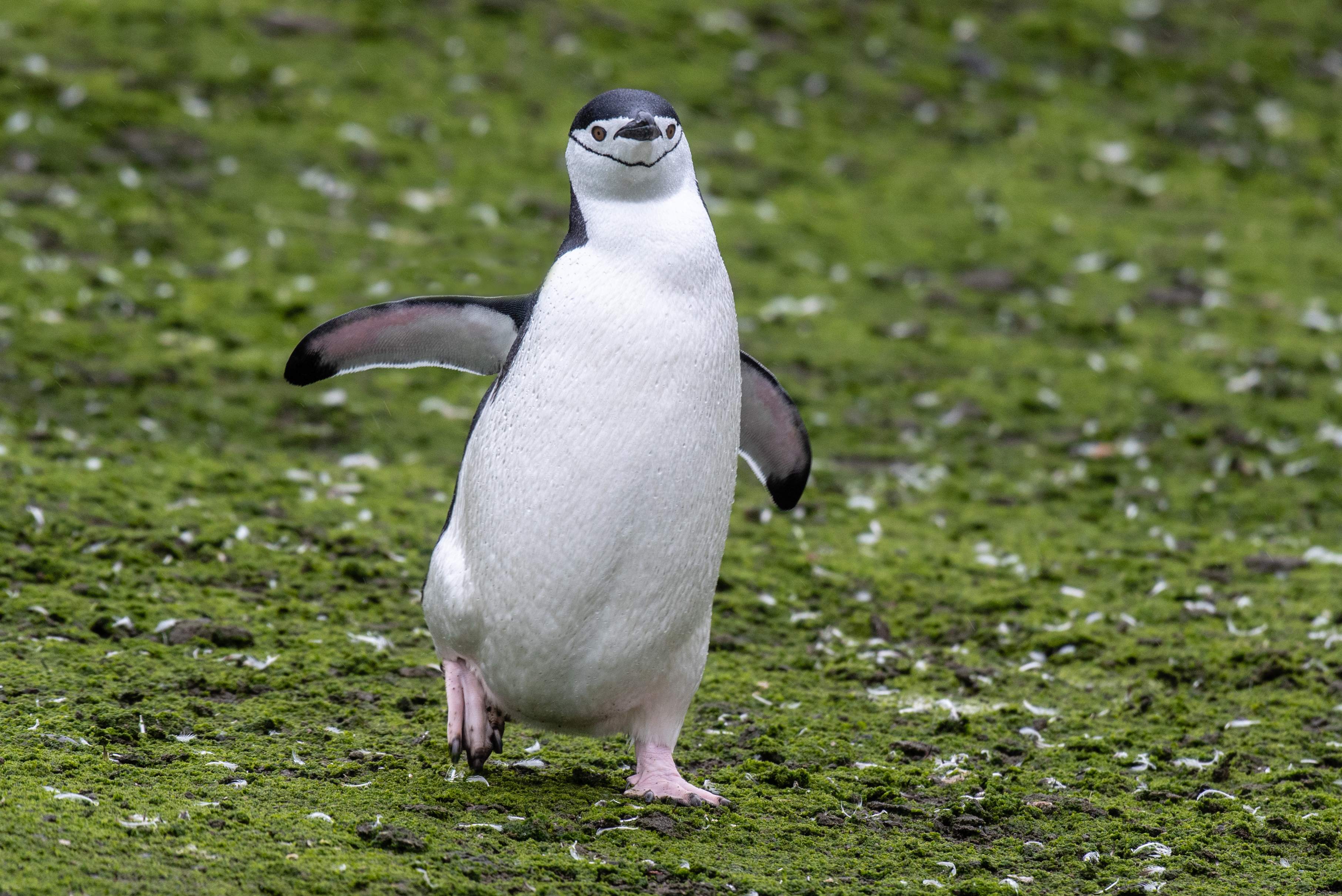 Chinstrap penguin (Pygoscelis antarcticus) on Barrientos Island, in Antarctica on March 3, 2019.